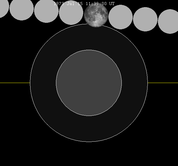 July 1973 lunar eclipse chart of moon's path through the earth's shadow. thumb